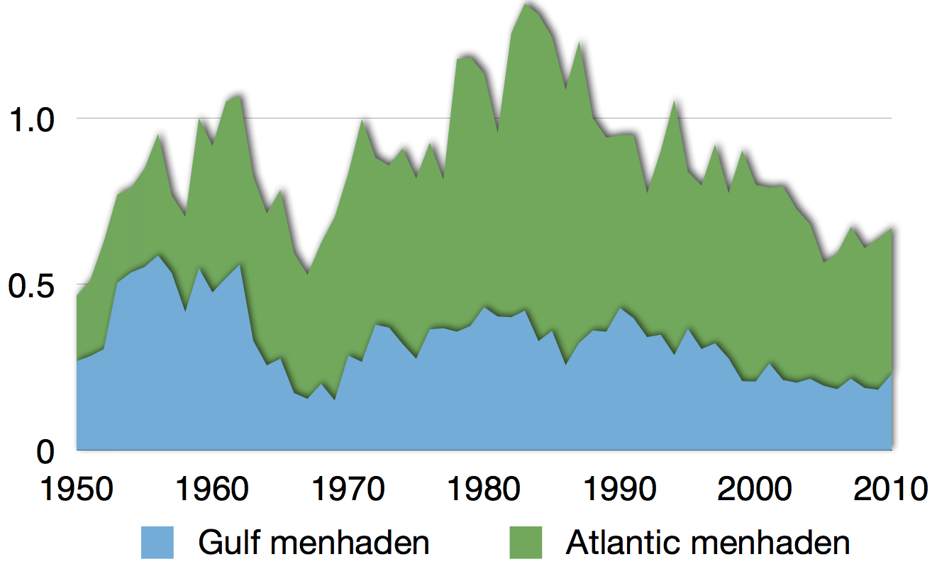 Global capture of all menhaden species in millions of tonnes, 1950–2010, as reported by the FAO. Based on data sourced from the relevant FAO Species Fact Sheets